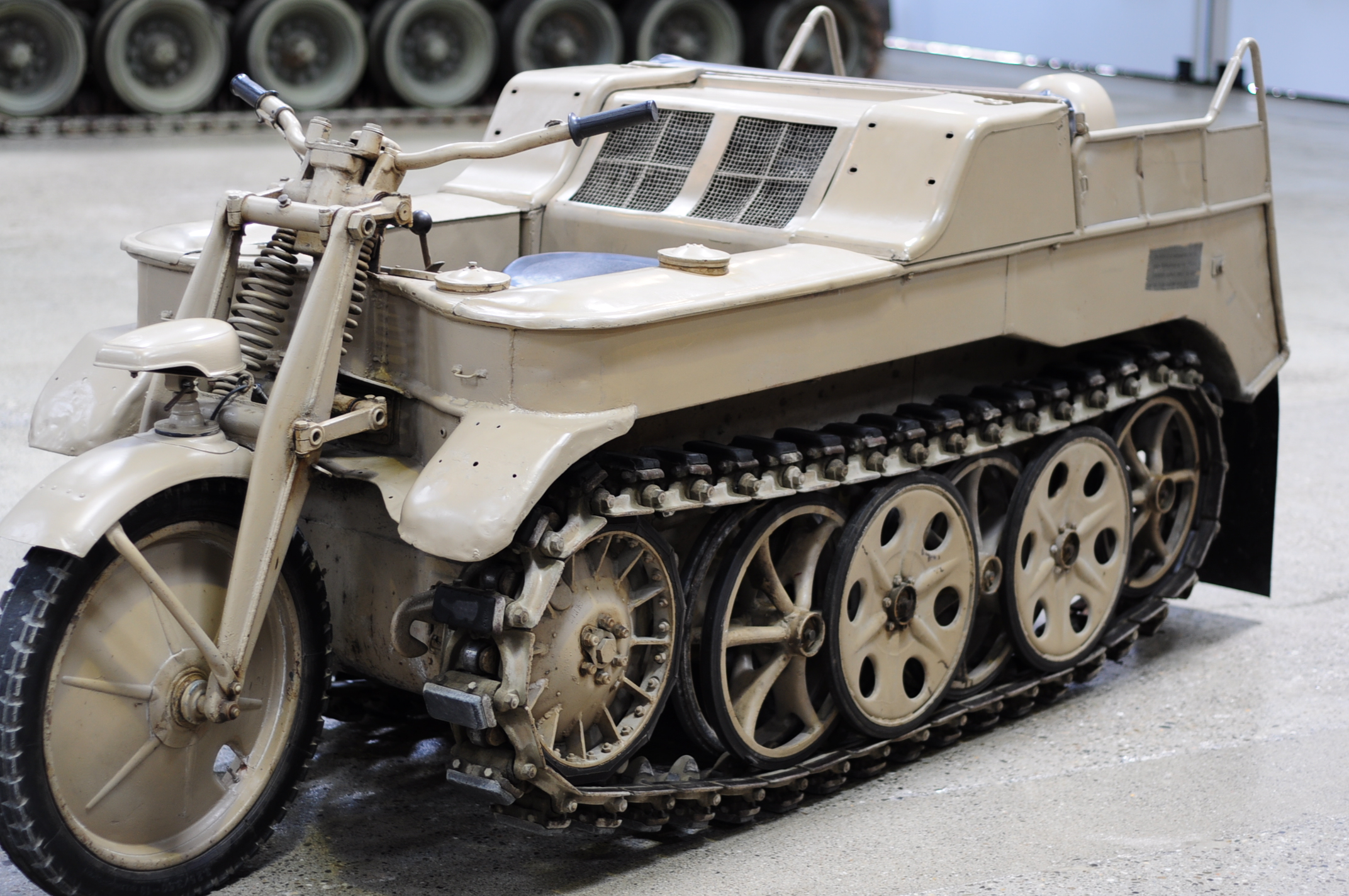 "Kettenkrad" Flight Heritage Museum, Everett, Washington USA